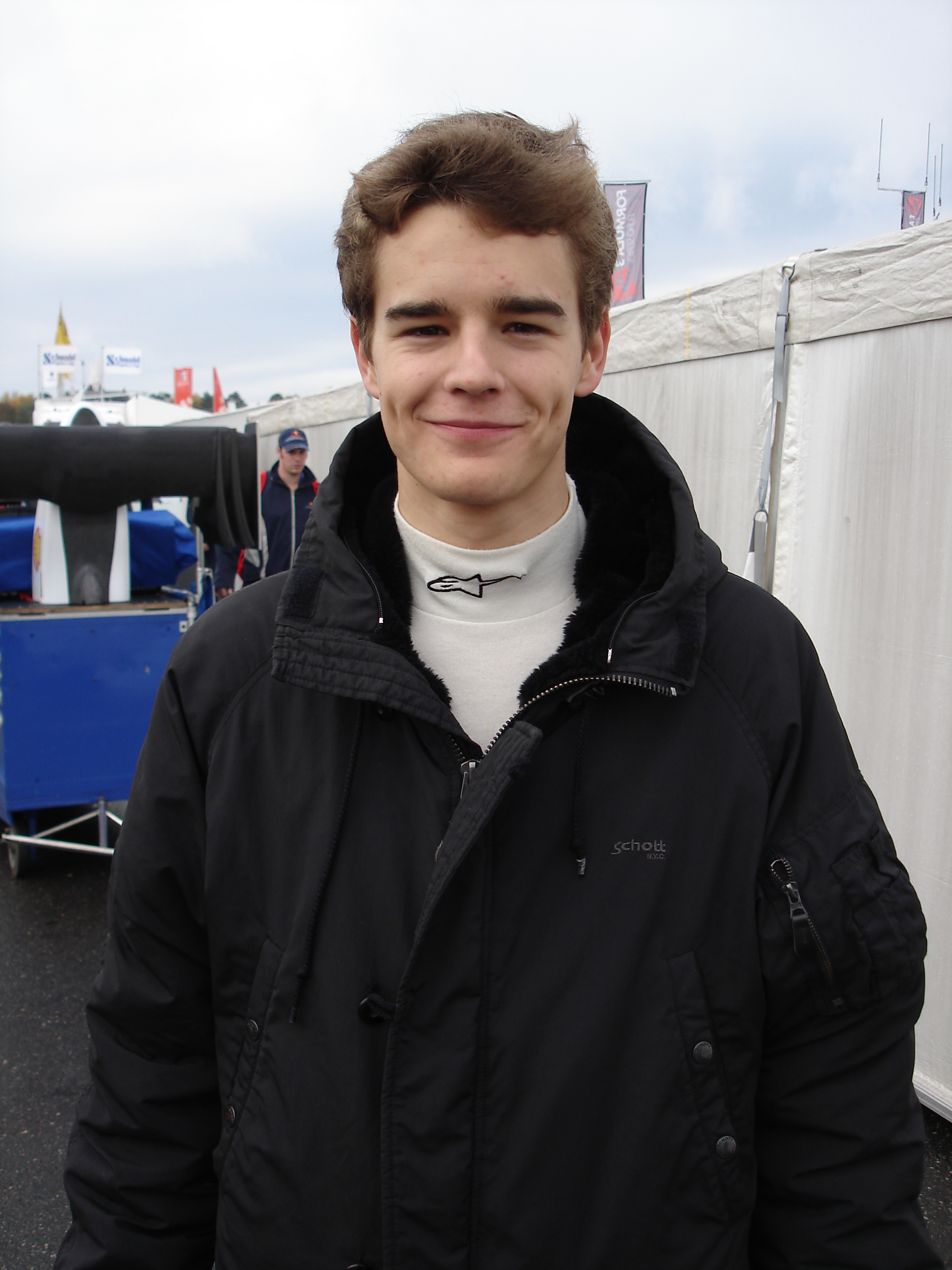 Tom Dillmann: the photo was taken during 2009's second DTM race weekend at Hockenheim